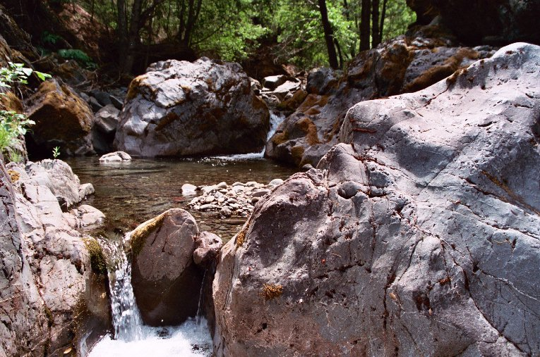 Rattlesnake Creek, a tributary to the Eel River, Mendocino National Forest, California